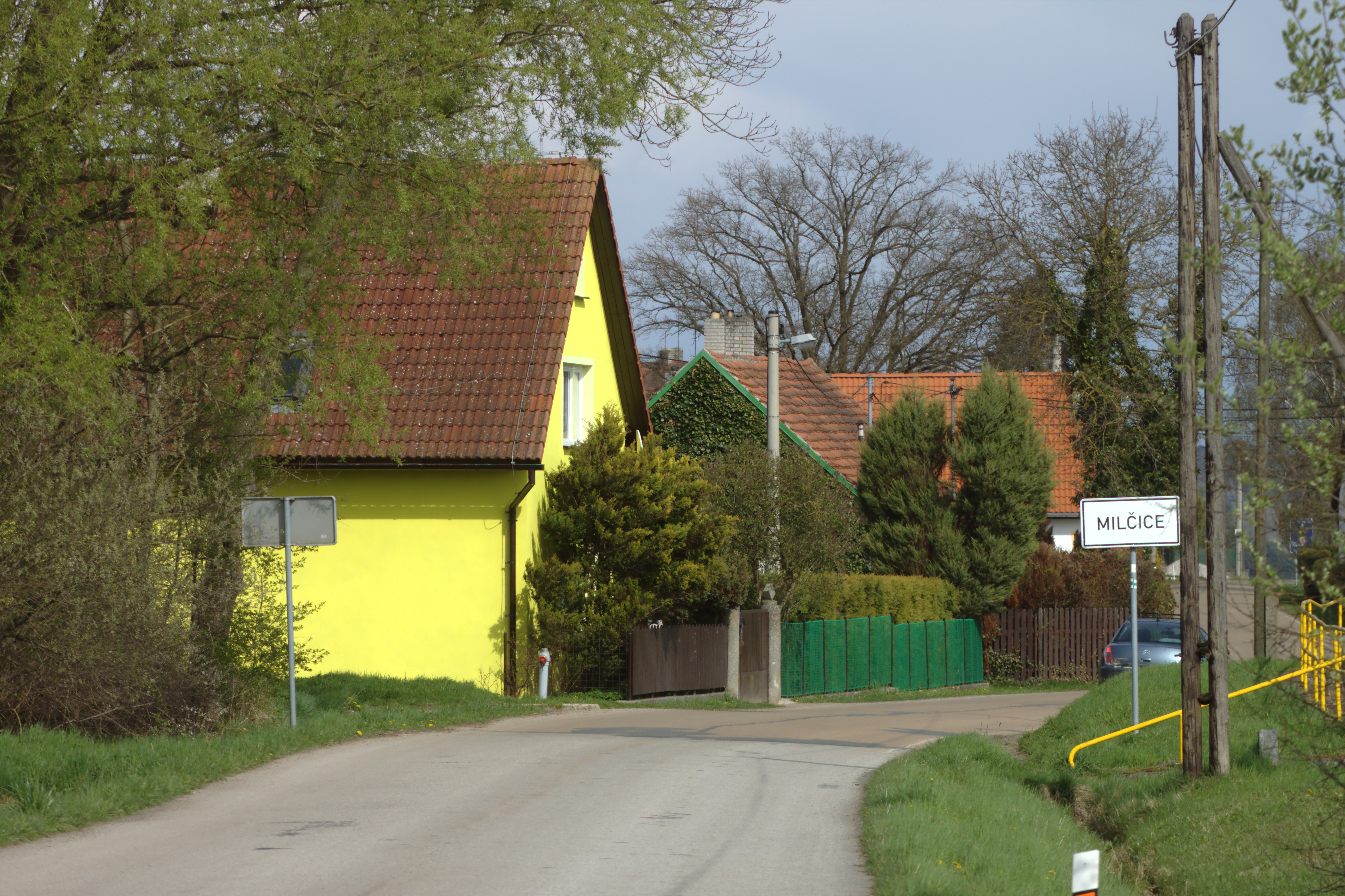 Buildings in the village of Milčice, Plzeň Region, CZ